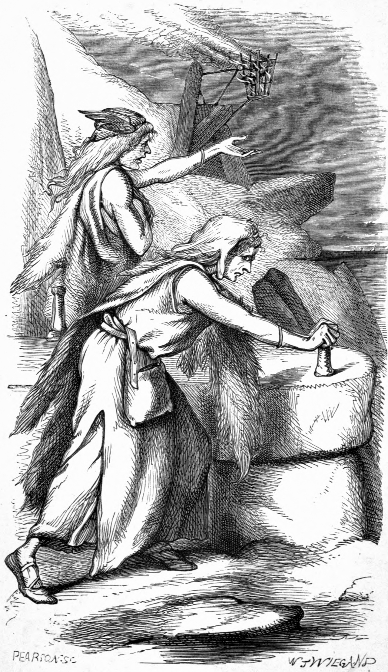 Menia and Fenia (the title in the list of illustrations). The beacon in the background is a reference to a stanza from Gróttasöngr: 18. Fire I see burning east of the burgh; tidings of war are rife: that should be a token; a host will forthwith hither come, and the town burn over the king. Thorpe's translation